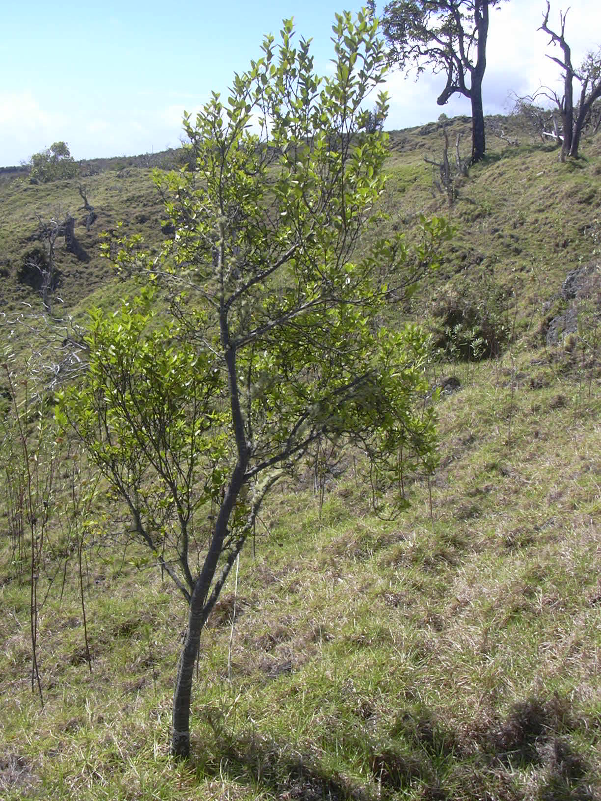 Wikstroemia monticola (habit). Location: Maui, Auwahi